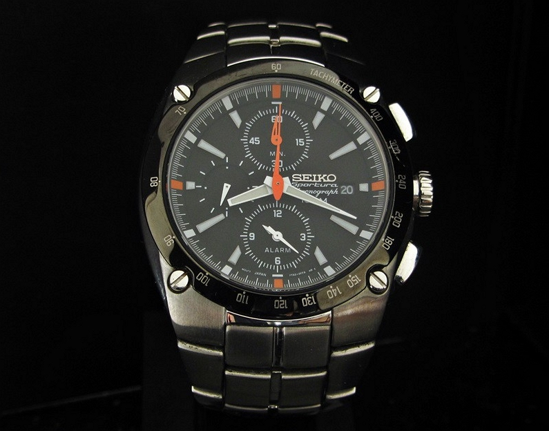 SEIKO SNA451 SPORTURA ALARM CHRONOGRAPH 7T62-0ED0